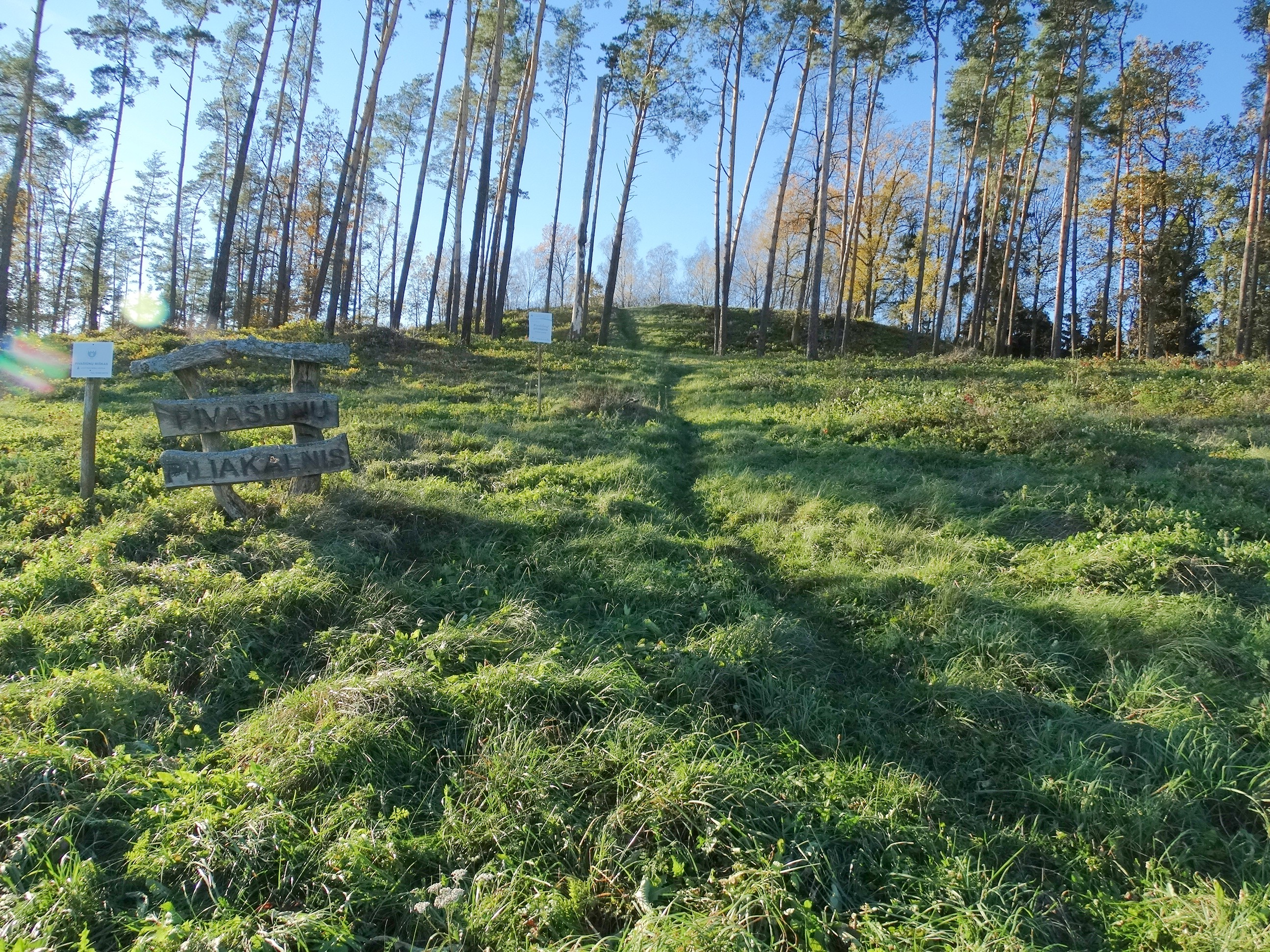 Hillfort, Pivašiūnai, Alytus district, Lithuania